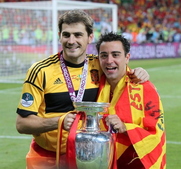 Iker Casillas and Xavi Hernández with Euro 2012 trophy